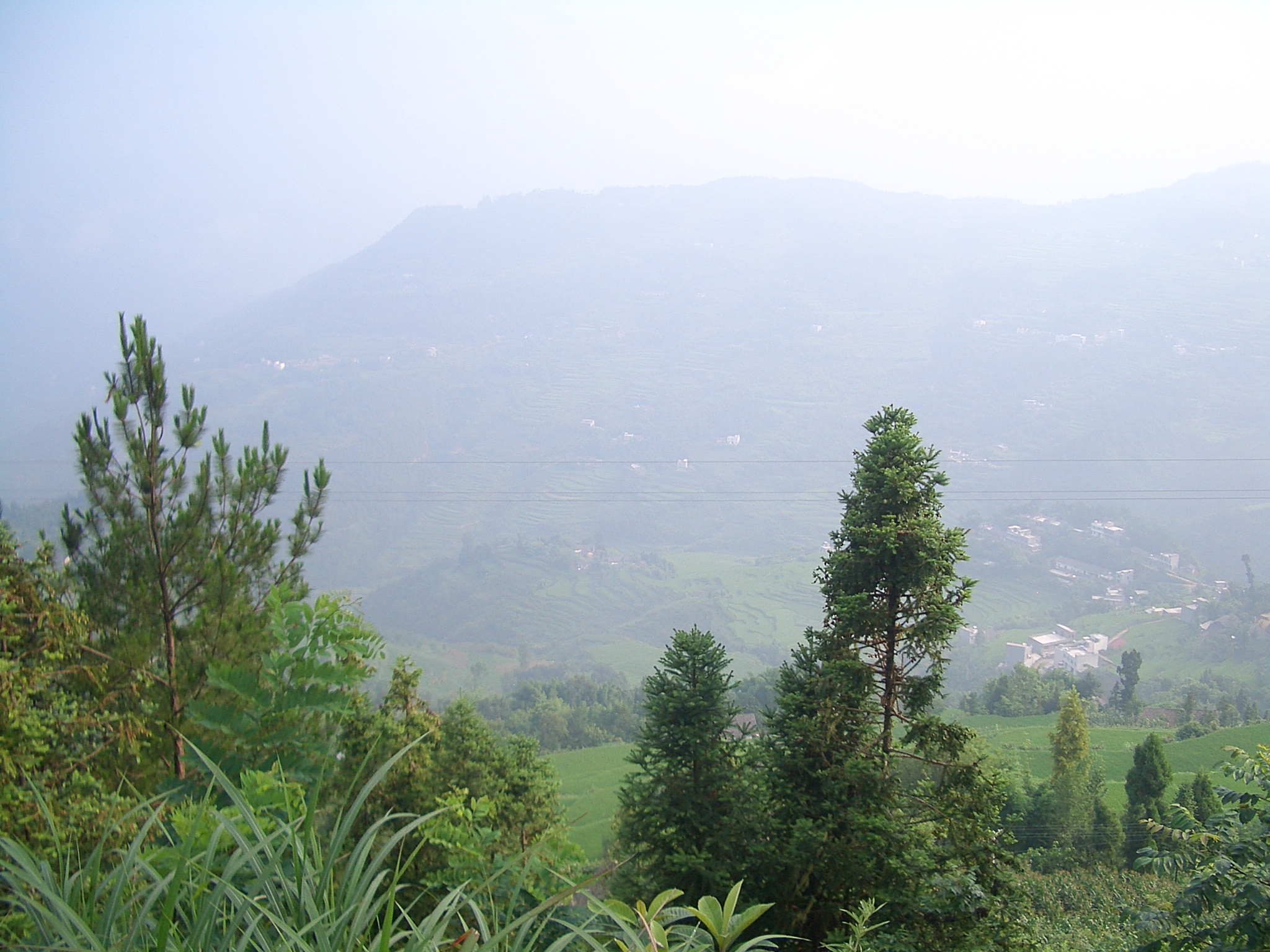 Trees and agricultural landscapes near Baisha Village in the hilly Xiqiuwan Township, Badong County, Hubei. Seen from G209 NE of town, on the way to Gaoqiao, Xingshan County